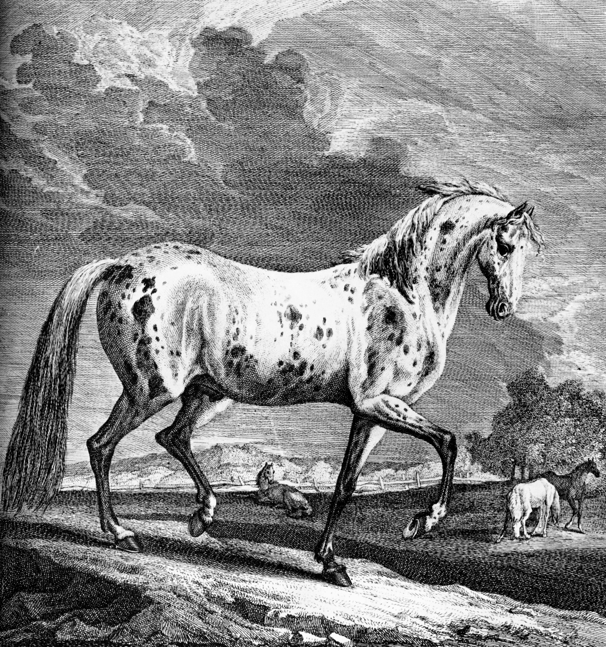 Print of a Spotted horse in the Emperor's stable in Vienna, about 1740